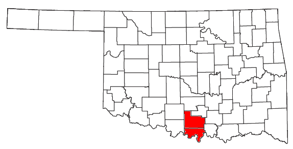 Locator map of the Ardmore Micropolitan Statistical Area in the southern part of the U.S. state of Oklahoma.